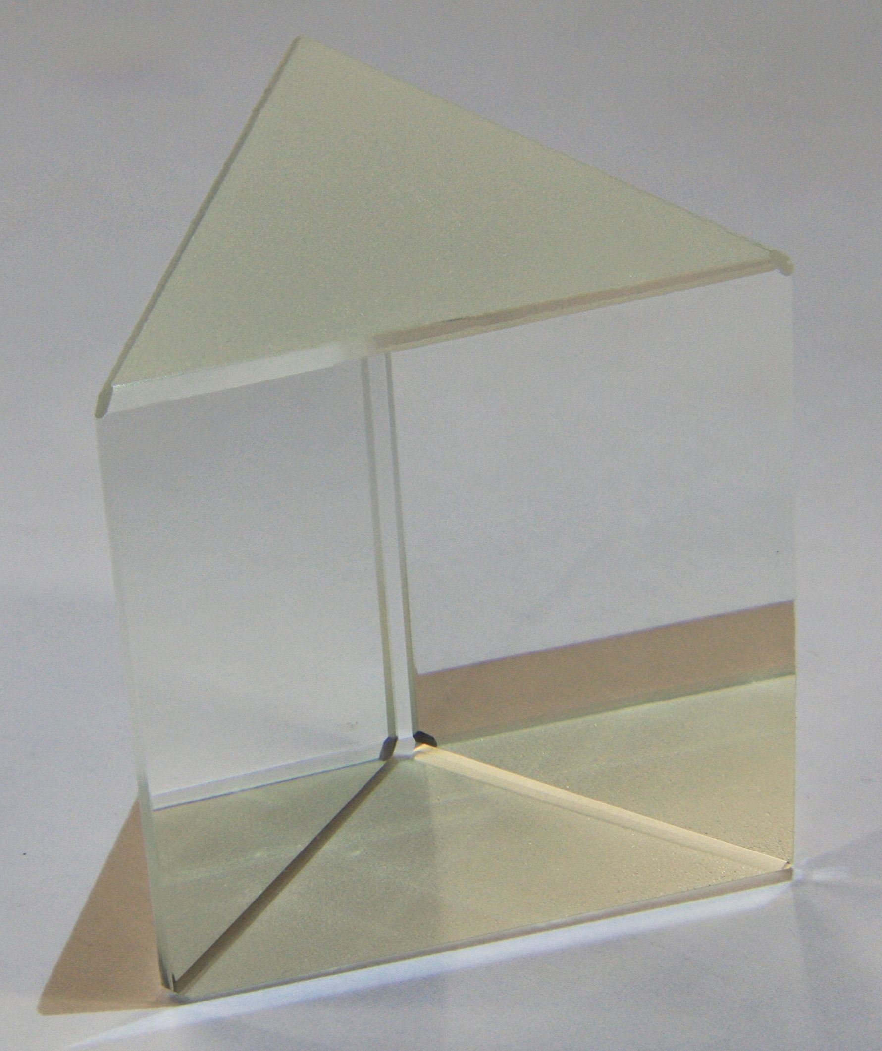 A prism